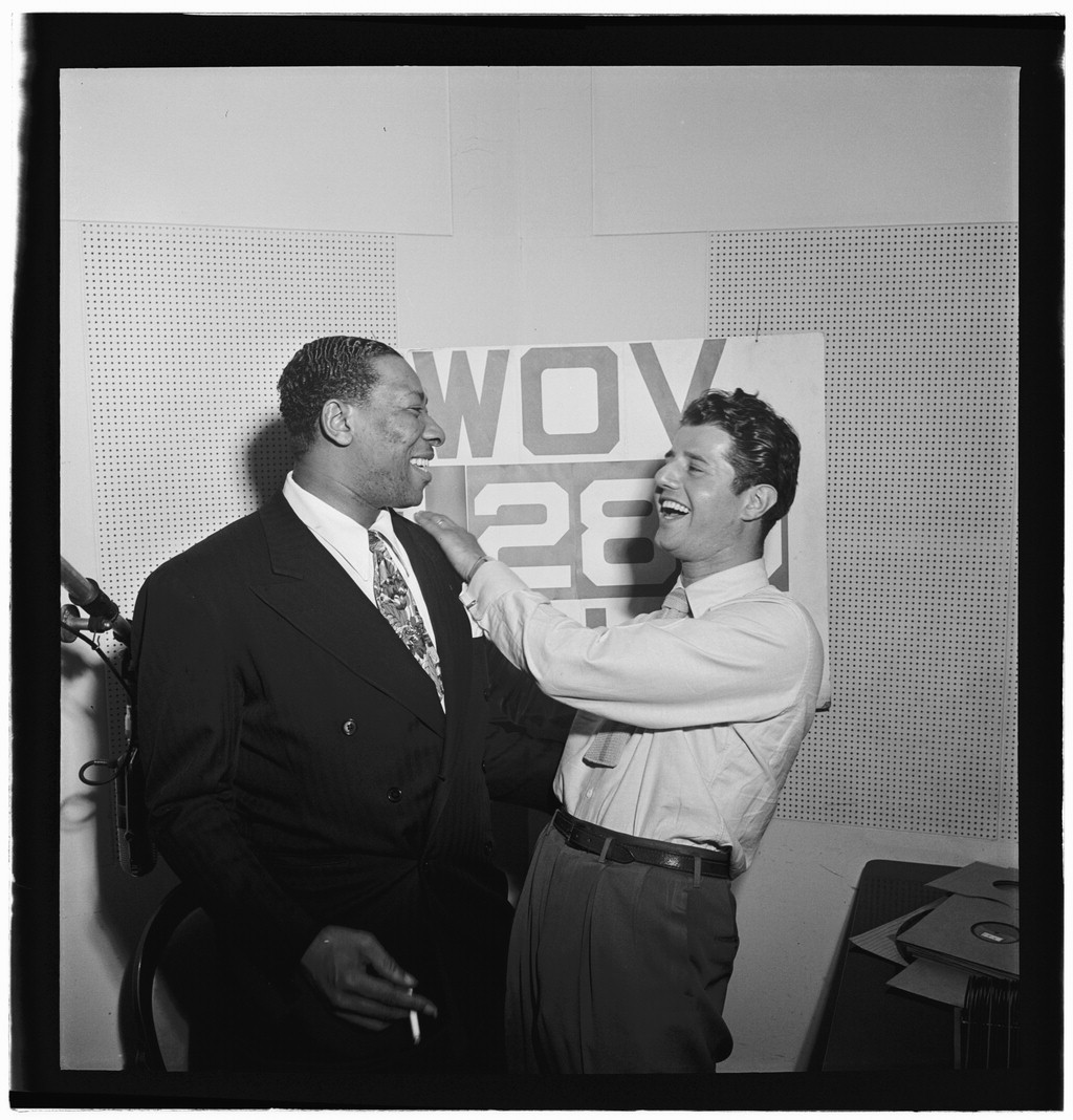 Sidney Catlett (January 17, 1910 – March 25, 1951), was a swinging jazz drummer often referred to as "Big Sid Catlett" because of his large frame. Gottlieb, William P., 1917-, photographer. [Portrait of Sid Catlett and Freddie Robbins, WOV office, New York, N.Y., ca. June 1947] 1 negative : b&w ; 2 1/4 x 2 1/4 in. Notes: Gottlieb Collection Assignment No. 058 Reference print available in Music Division, Library of Congress. Purchase William P. Gottlieb Forms part of: William P. Gottlieb Collection (Library of Congress). Subjects: Catlett, Sid, 1910-1951 Robbins, Freddie Jazz musicians--1940-1950. Drummers (Musicians)--1940-1950. Disc jockeys--1940-1950. Format: Portrait photographs--1940-1950. Group portraits--1940-1950. Film negatives--1940-1950. Rights Info: Mr. Gottlieb has dedicated these works to the public domain, but rights of privacy and publicity may apply. Repository: (negative) Library of Congress, Prints & Photographs Division, Washington D.C. 20540 USA, (reference print) Library of Congress, Music Division, Washington D.C. 20540 USA, Part Of: William P. Gottlieb Collection (DLC) 99-401005 General information about the Gottlieb Collection is available at Persistent URL: Call Number: LC-GLB23- 0120